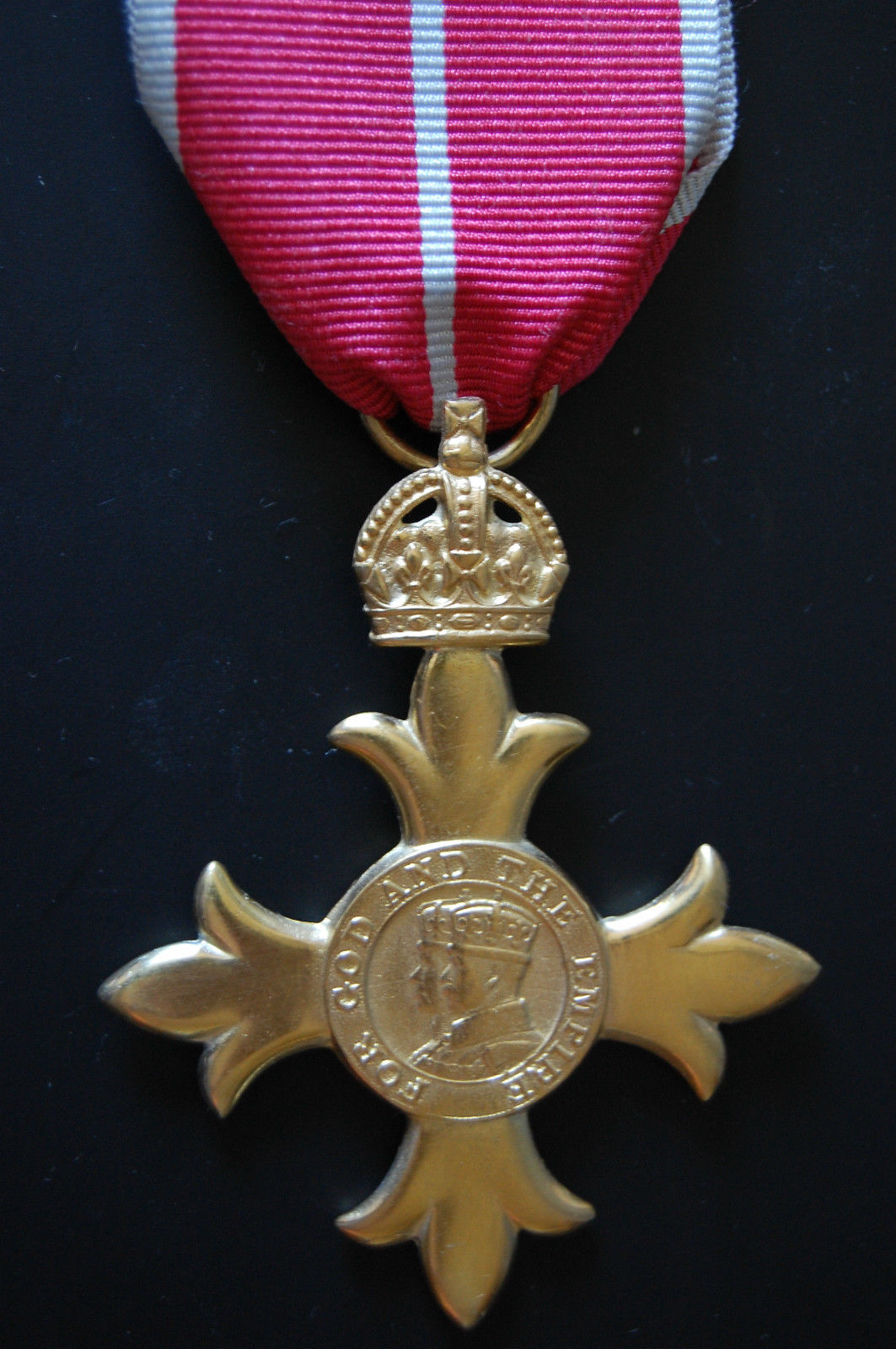 OBE - George 6th